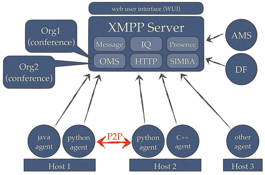 Spade Overview